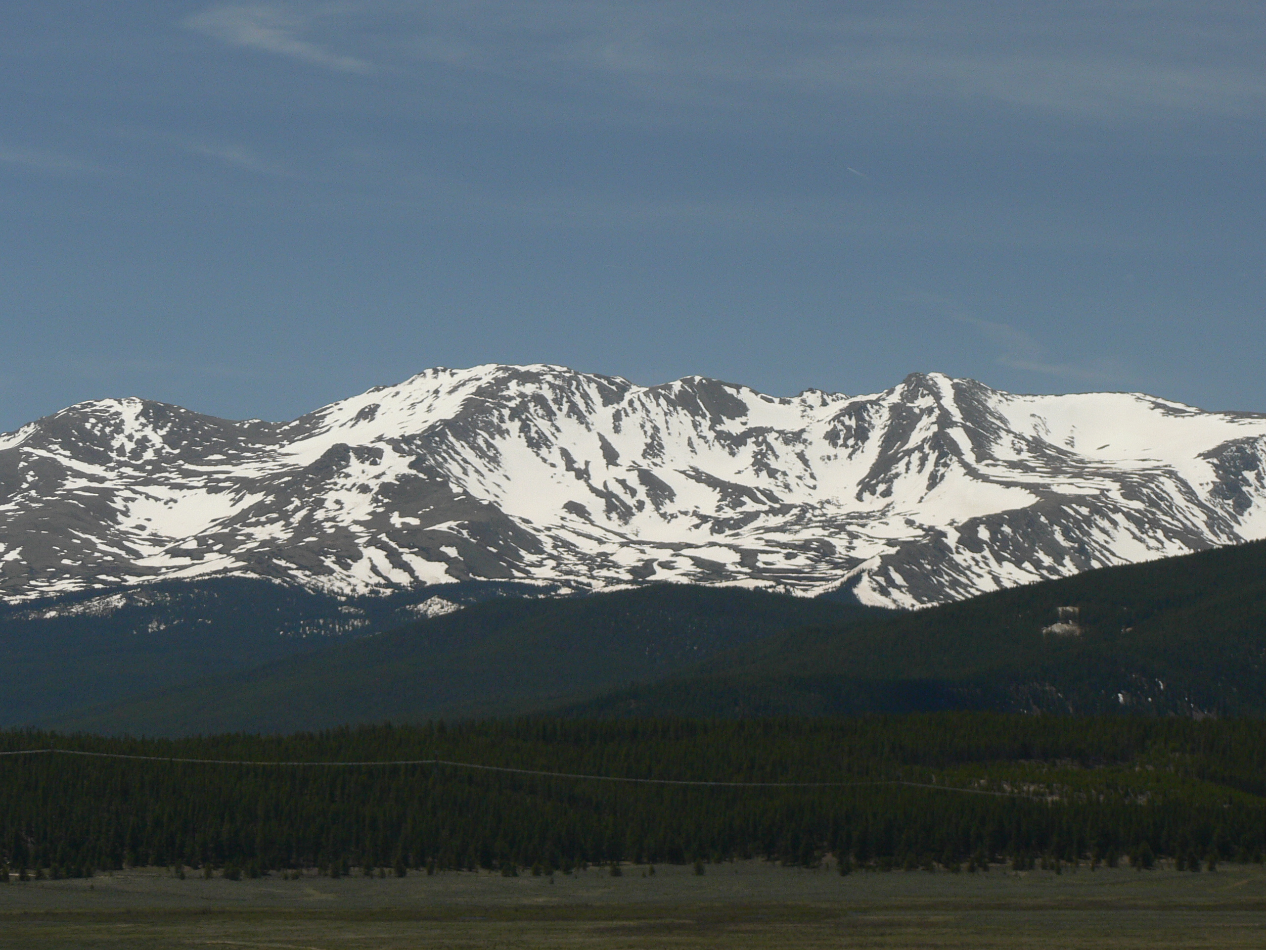 Mount Massive in the Sawatch Range of ColoradoP1060346 Massive